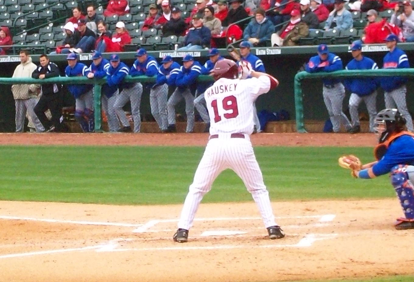 Thomas Hauskey of the University of Arkansas Razorbacks baseball team batting in 2009.